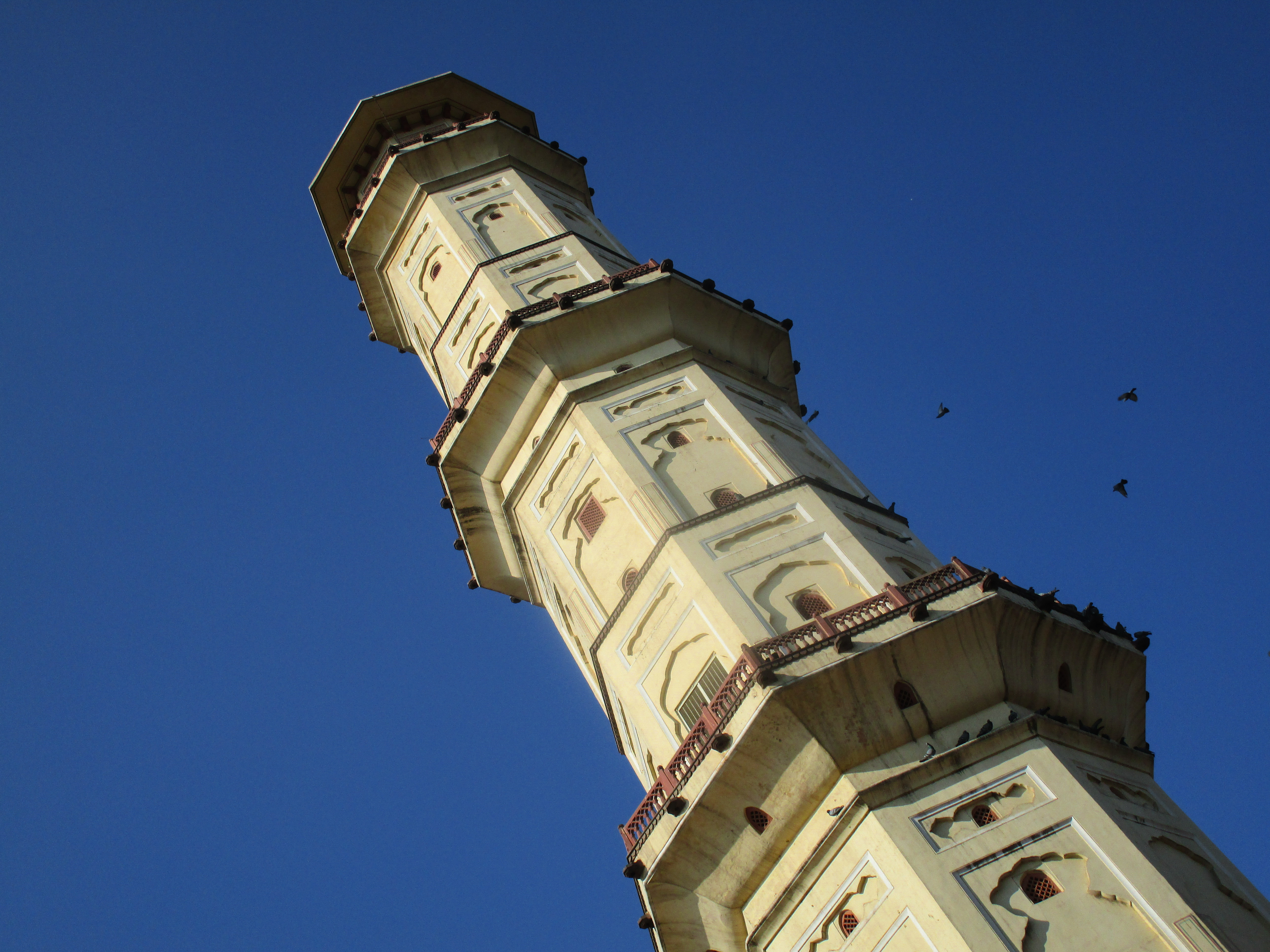 Isarlat(Sarga Suli)